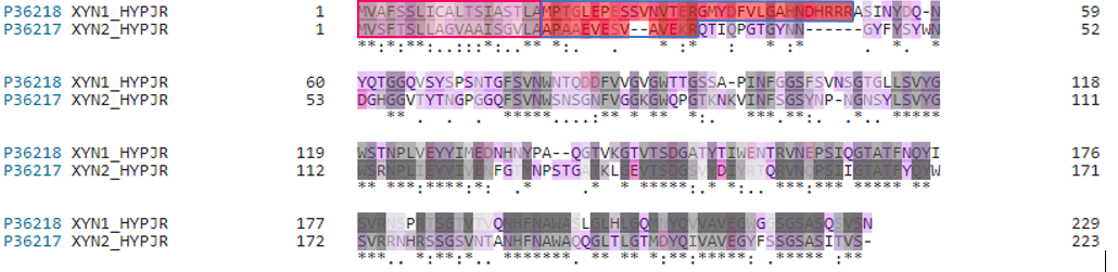 Alineament de la 1,4-beta-Xylanase 1 amb la 1,4-beta-Xylanase 2. En gris i amb els asteriscs podem veure l'homologia que existeix entre ambues proteïnes. En el lila s'observa els aminoàcids polars que presenten en el recuadre rosa observem la seqüència senyal i, finalment, en el recuadre blau distingim la part propeptídica.